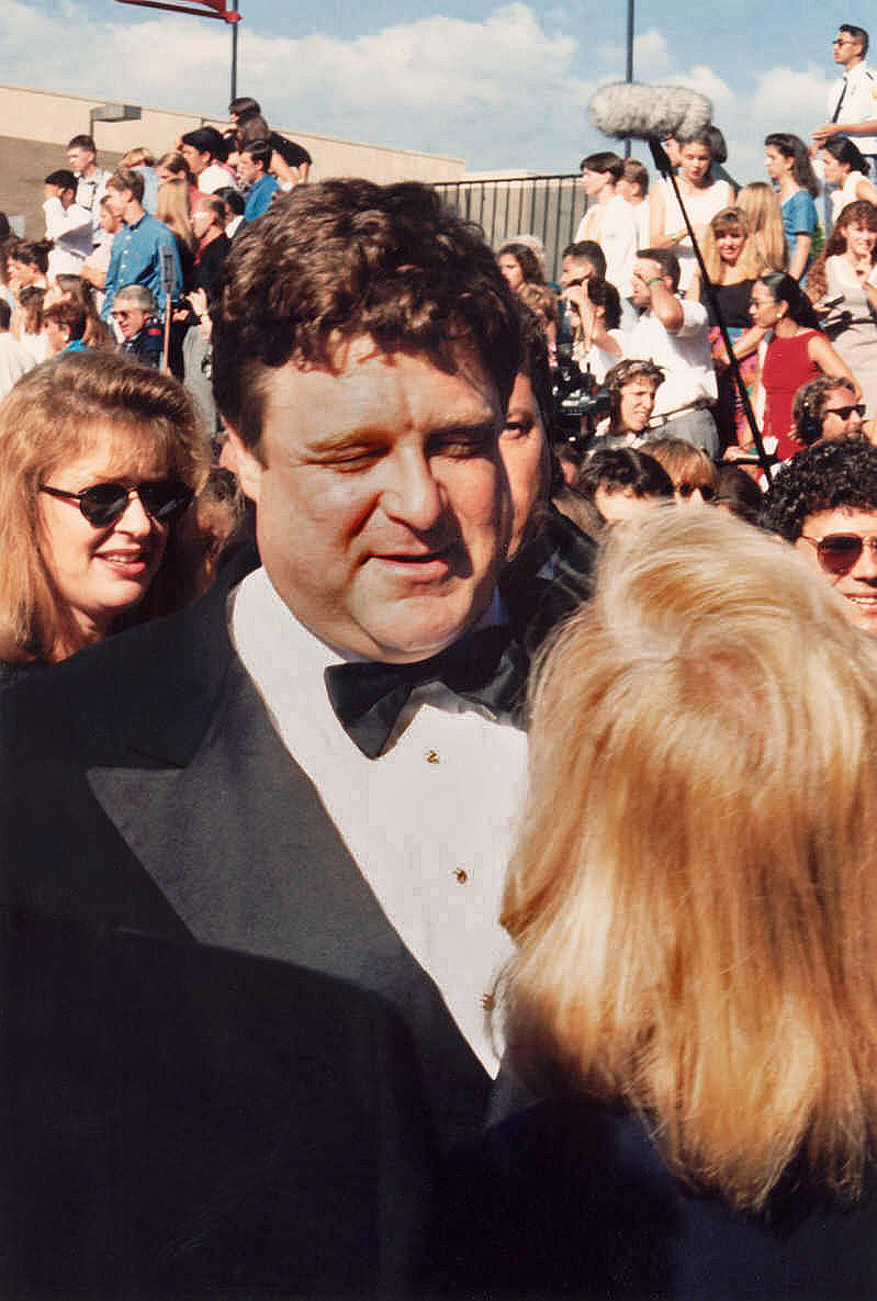 John Goodman on the red carpet at the Emmys